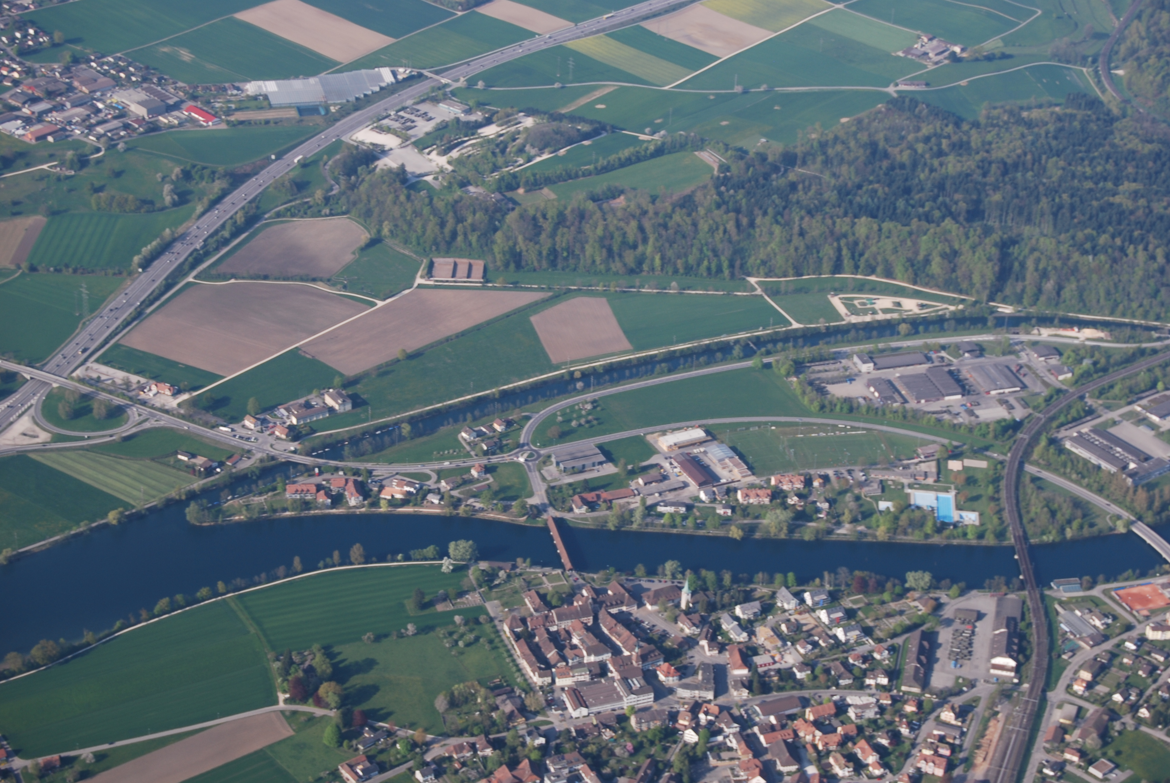 Aerial view of Wangen an der Aare, canton of Bern, Switzerland